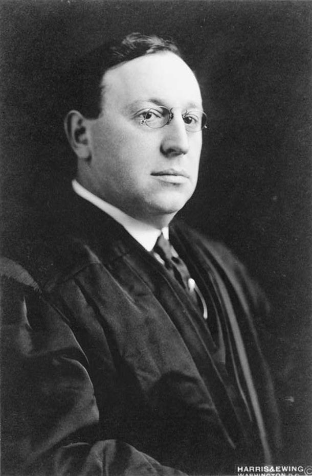 Judge Julian William Mack, half-length portrait, facing right